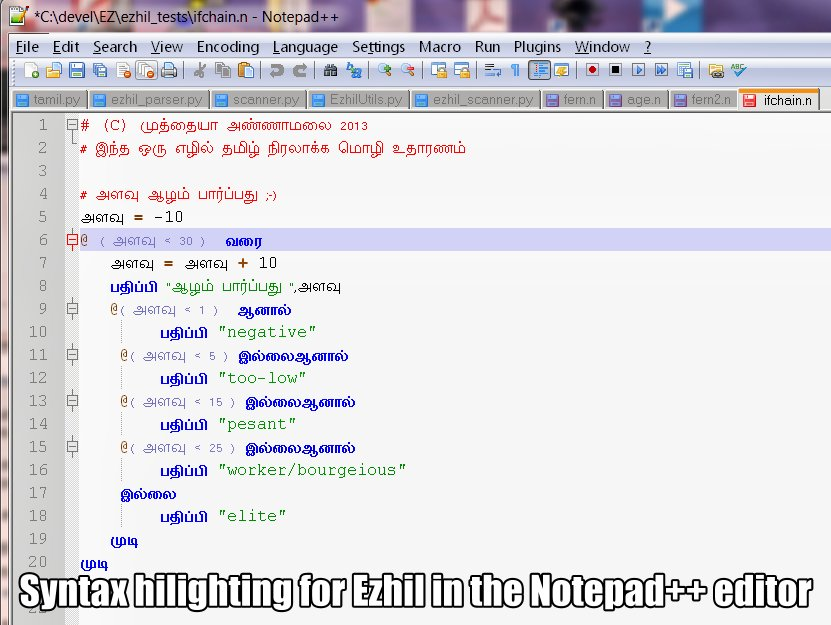 Ezhil programs syntax colored in Notepad++ editor